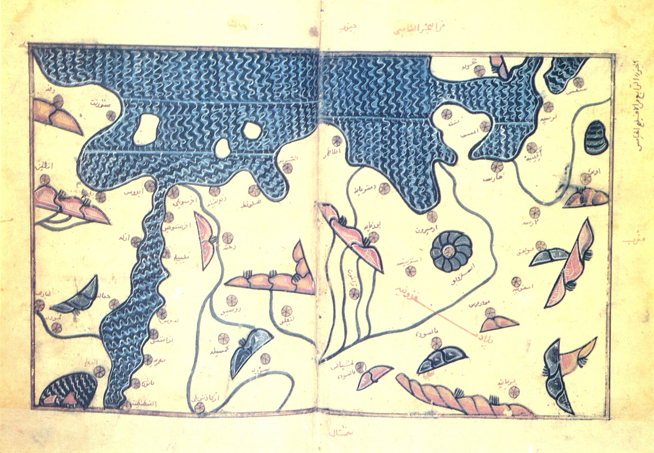 Muhammad al-Idrisi. Saint Petersburg transcript of V-4.The map displays: the northern shoreline of Marmara Sea, Gallipoli Peninsula, Aegean Sea shoreline from the delta of Maritsa River to Peloponnese Peninsula, region Macedonia, parts of Central Greece and Thessaly